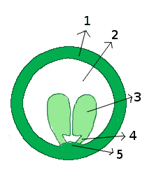 Gynoecium morphology, cross section. 1: ovary wall. 2: locule. 3: ovule. 4: funiculus. 5: placenta